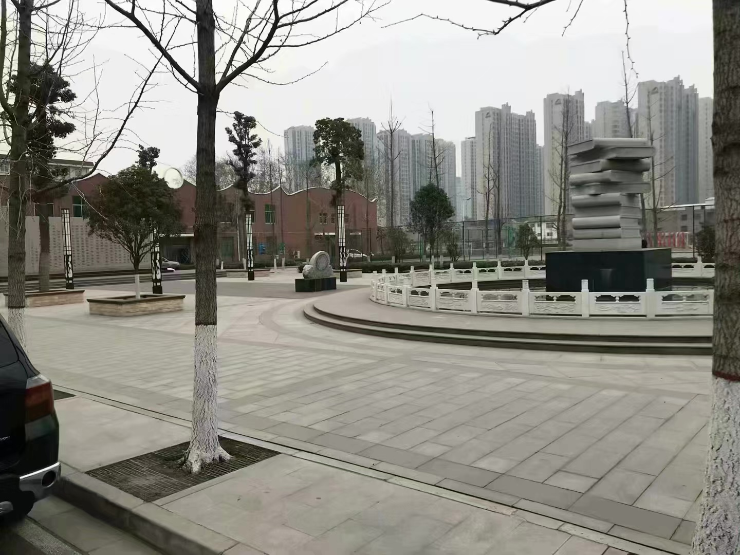 喷泉（北校区）